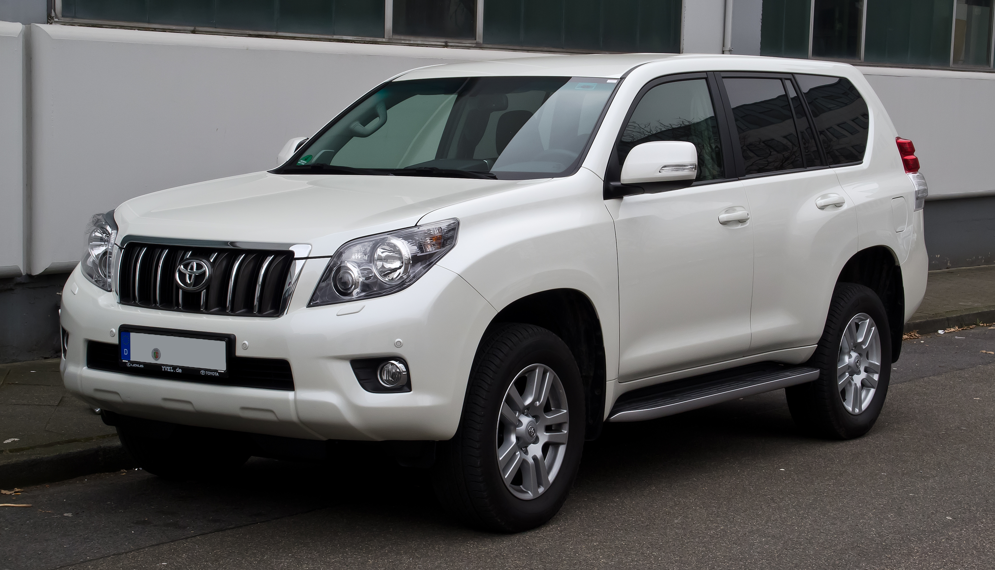 Toyota Land Cruiser 3.0 D-4D Life (J15)